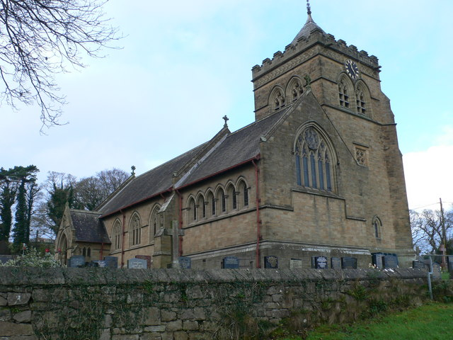 St Mary the Virgin, Halkyn Although there has been a church at Halkyn for at least 1000 years, the present building dates only from 1878. The old church was demolished, and an entirely new building was erected a short distance away, the cost being met in full by the Duke of Westminster. The new church was consecrated on 29 October 1878.